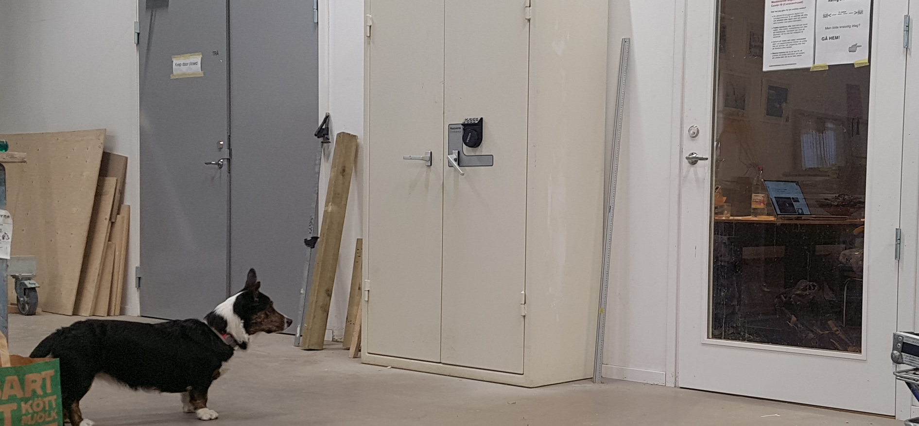 a dog named Tofflan was excluded from the coffee room where another dog visited.